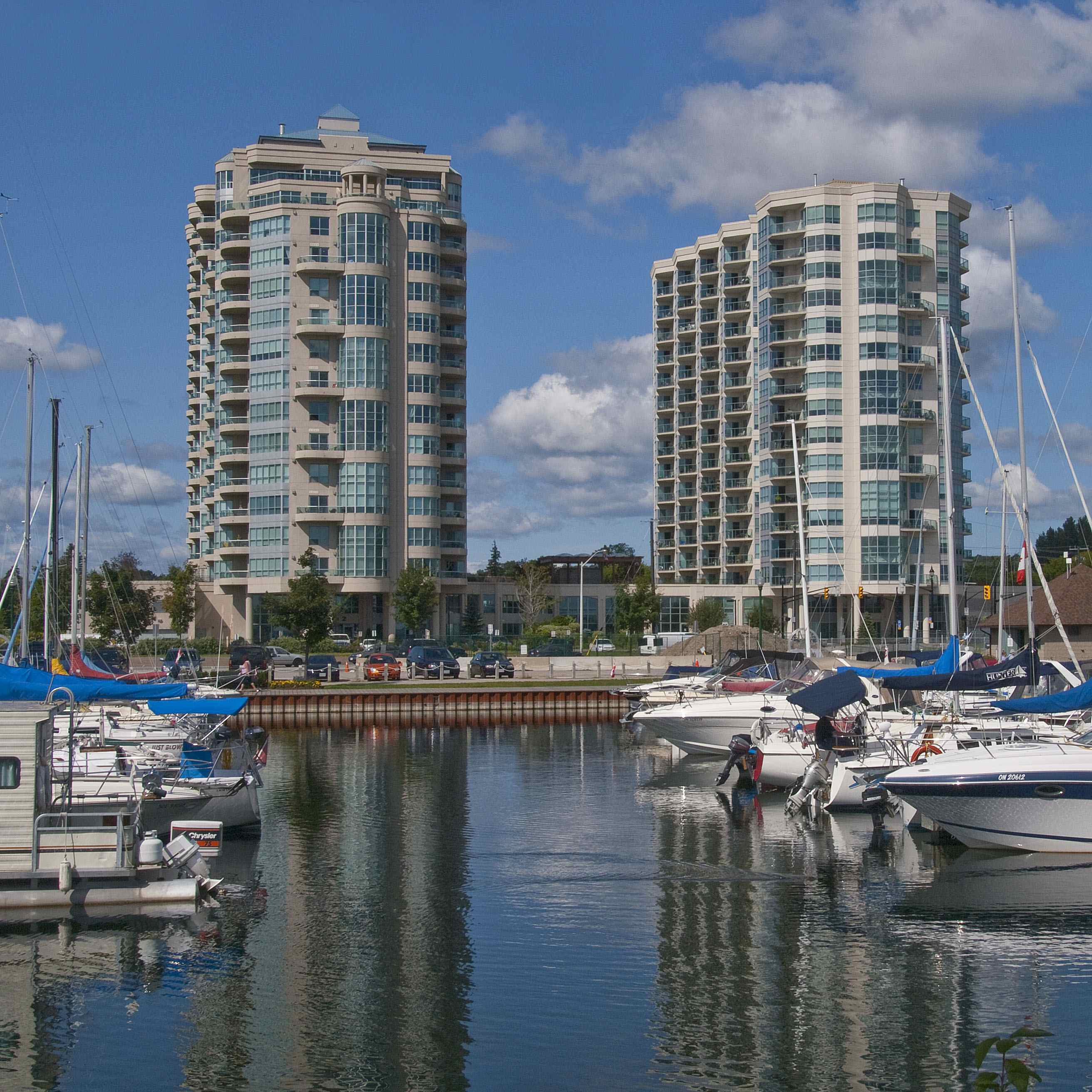 Exterior photo of Grand Harbour & Waterview Condos